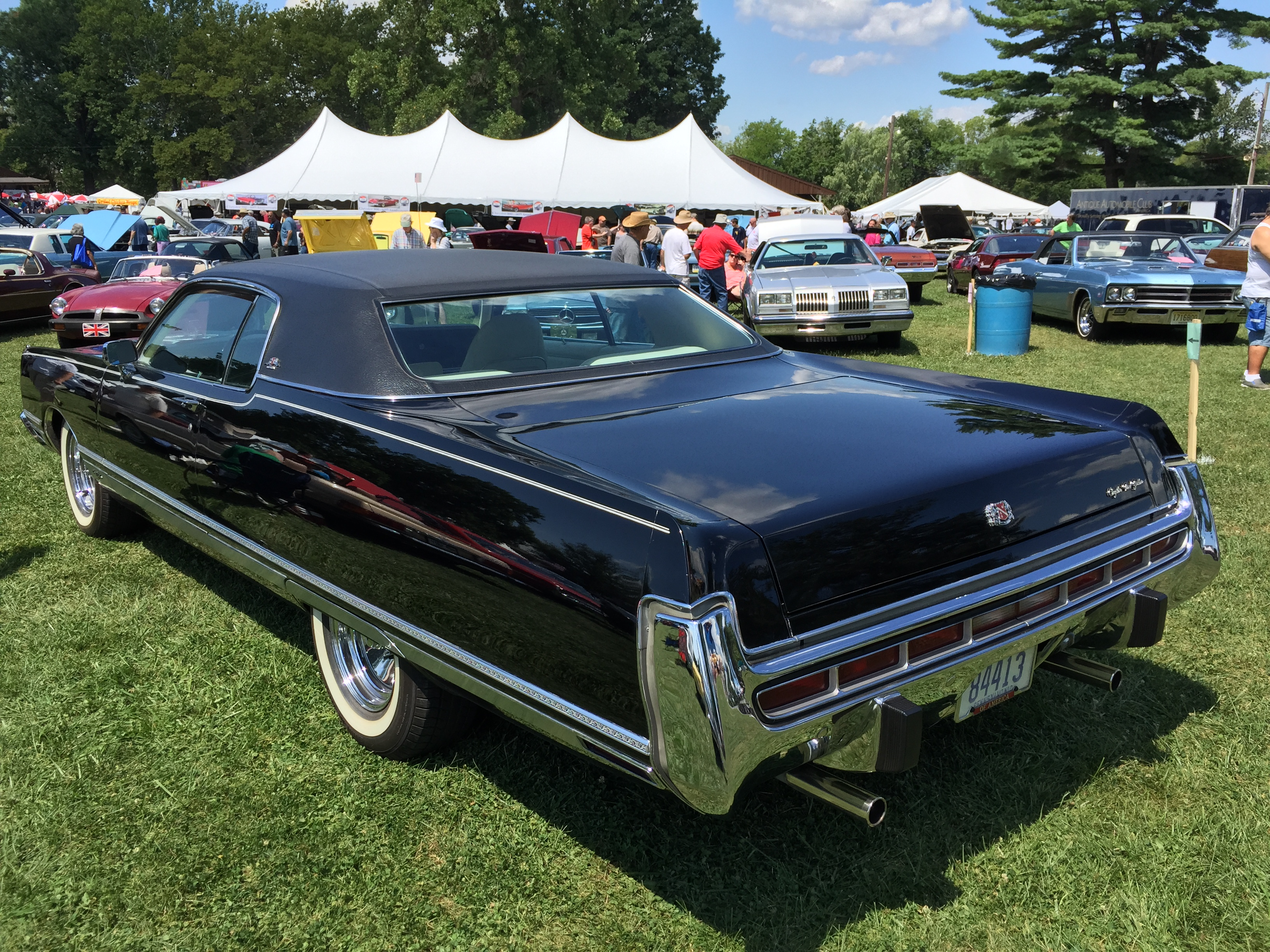 1973 Chrysler New Yorker, a full-sized two-door hardtop (no center B-pillar) finished in black with a white leather interior. Picture taken at the 52nd Annual "Das Awkscht Fescht" antique car show in Macungie, Pennsylvania.